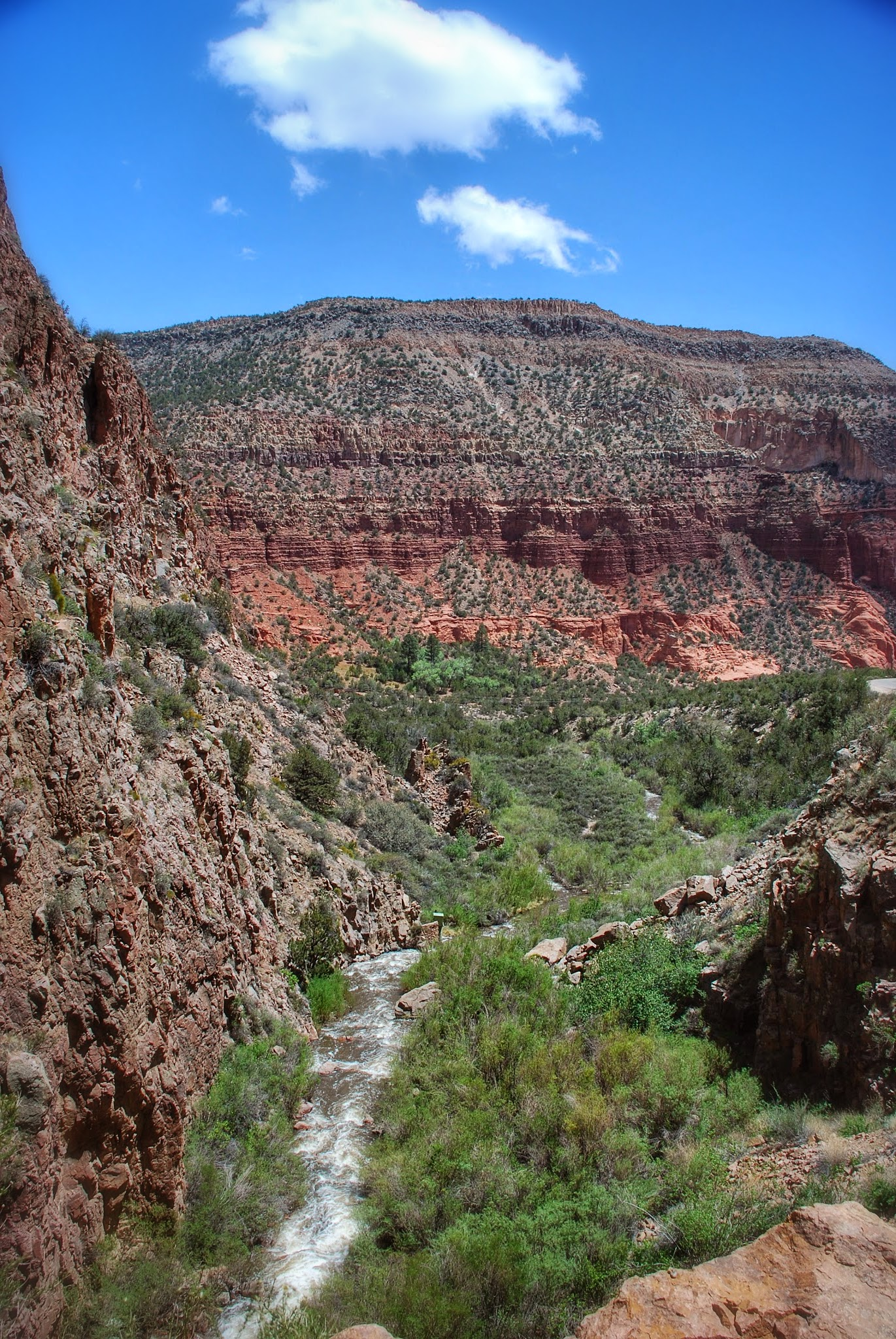 Looking at the Jemez Mountains from Forest Road 376 in Jemez Springs, New Mexico.